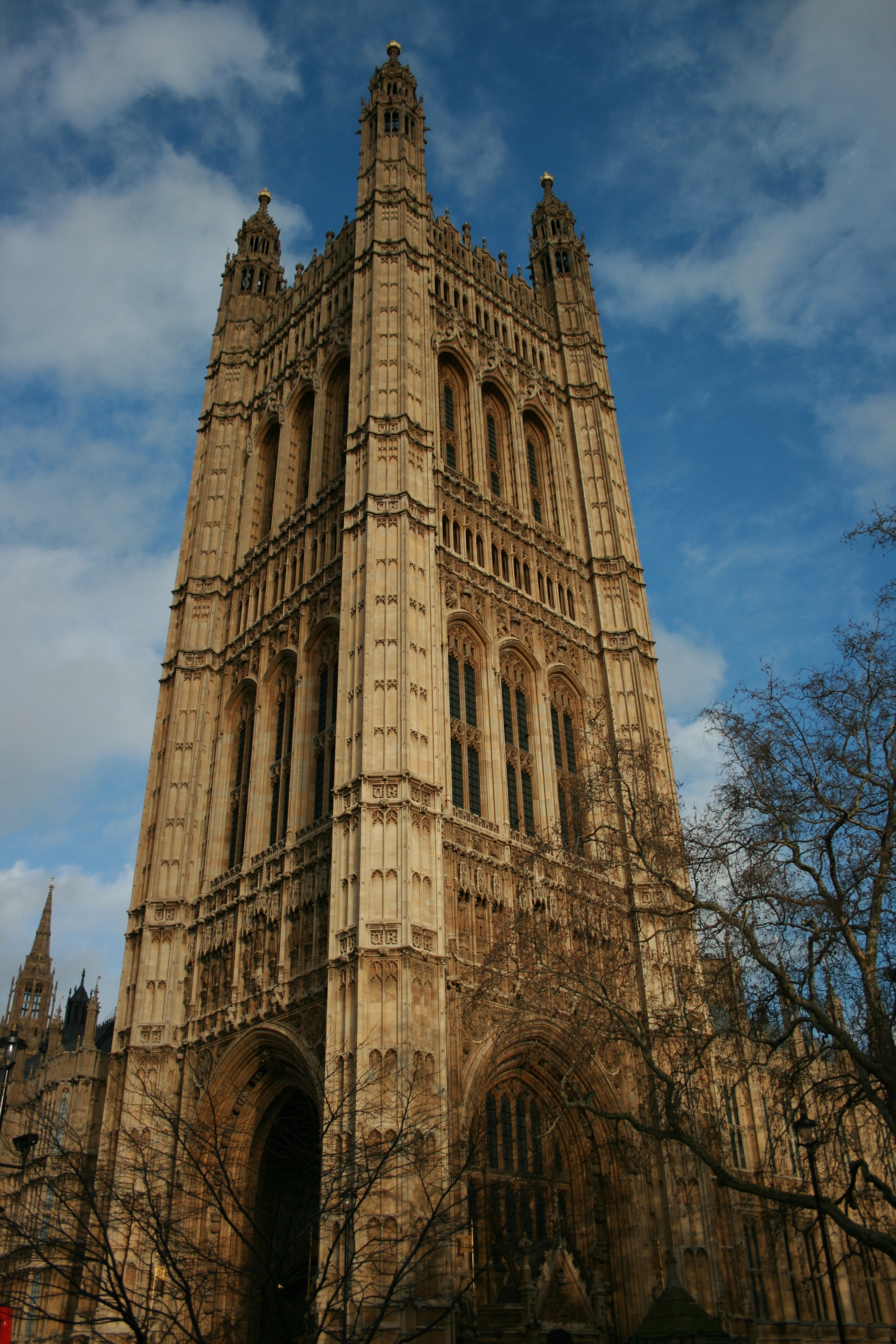 View from the south-west of the Victoria Tower, Palace of Westminster, London